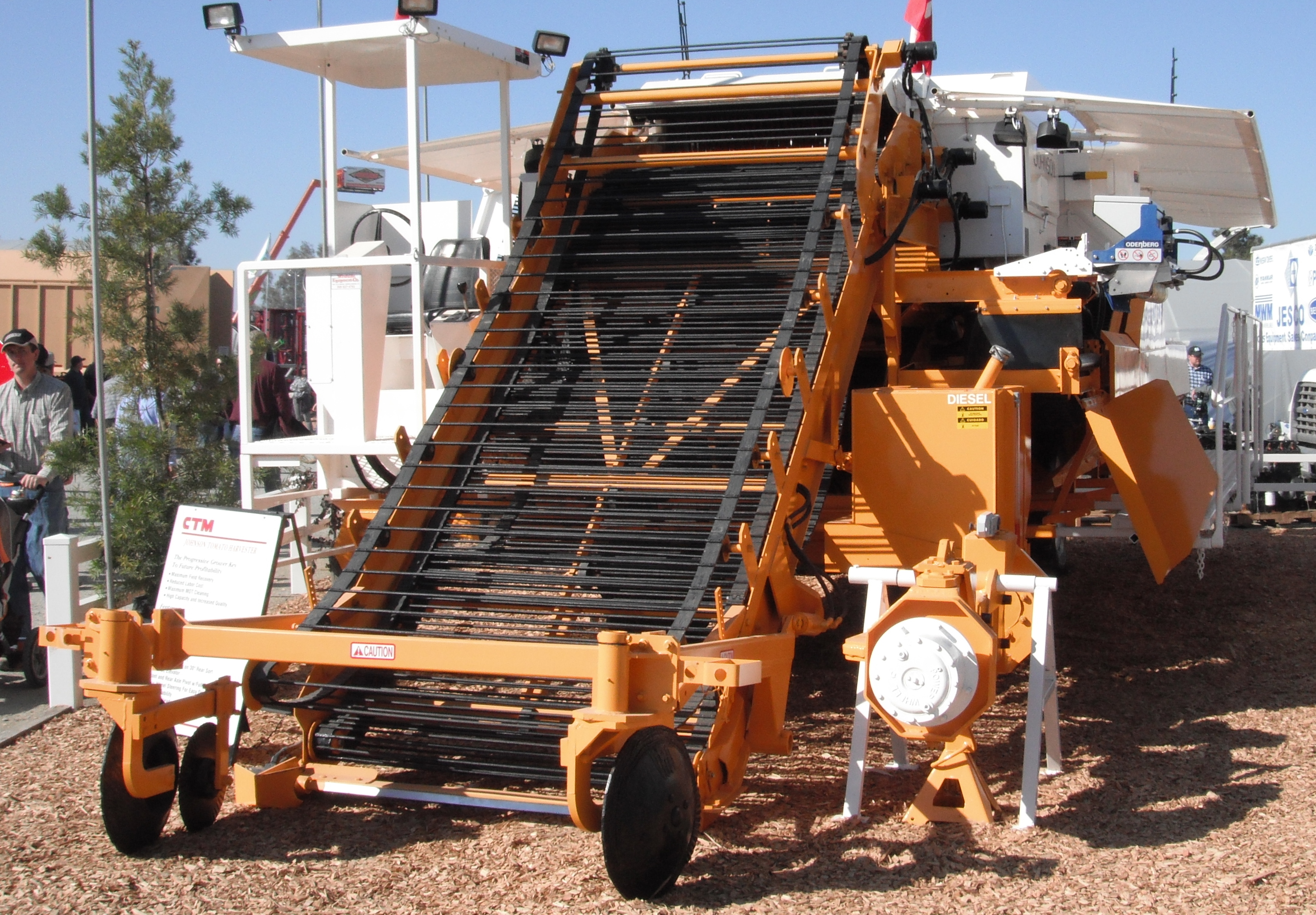 Johnson Tomato Harvester displayed by California Tomato Machinery (CTM) at World Ag Expo 2011.